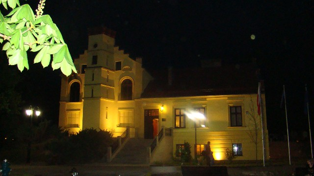 Palacyk "Sokol" in Skawina by night